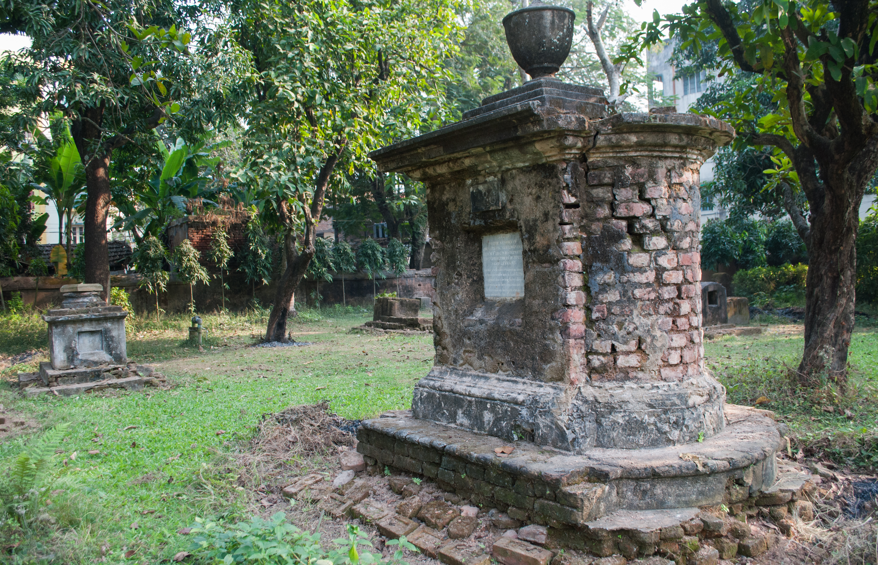 This photograph is taken in the Dutch cemetery of Chinsura